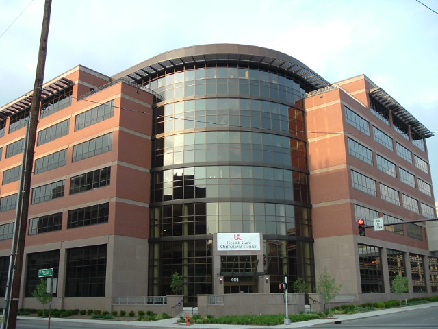 U of L Health Care Outpatient Center